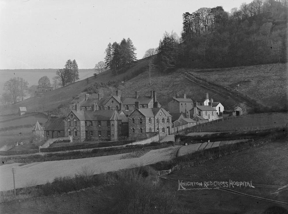 Abstract: Knighton Red Cross Hospital